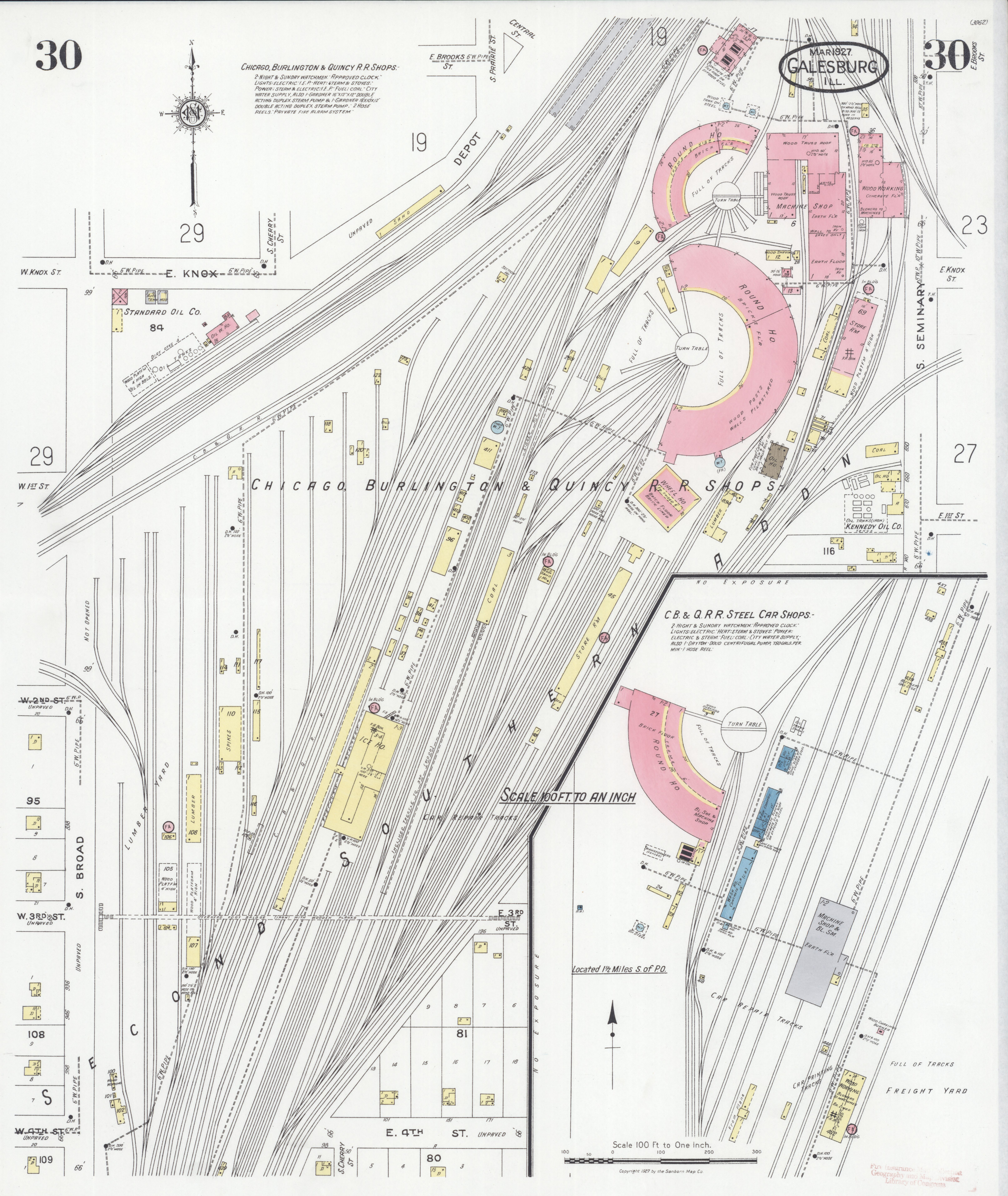 Mar 1927. 36 Sheet(s). Includes East Galesburg.